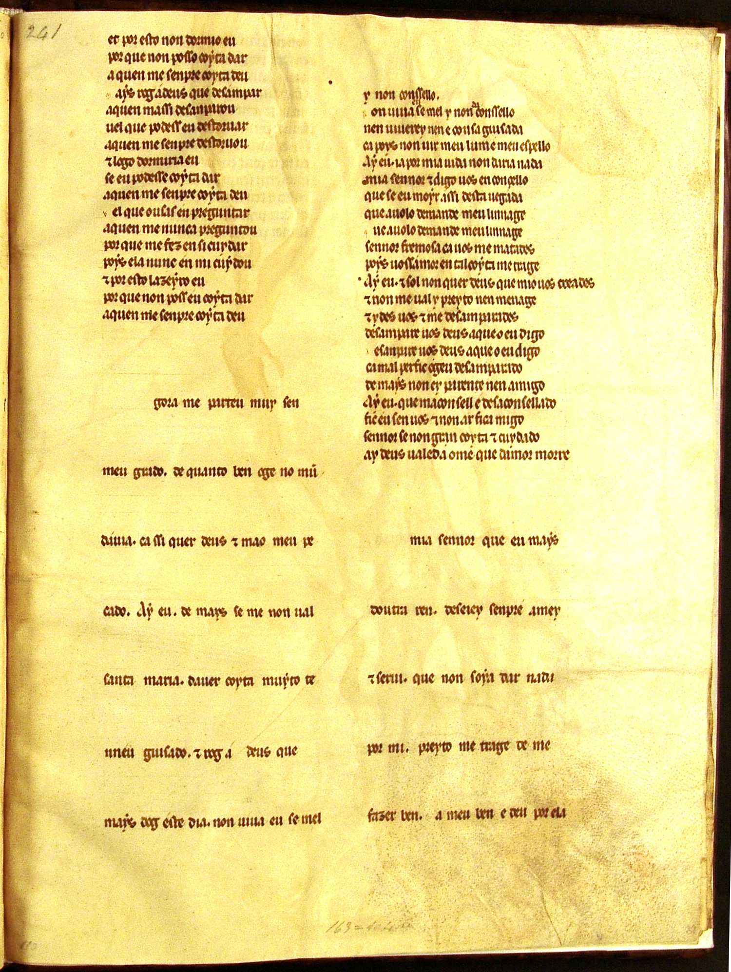 Cancioneiro da Ajuda manuscripts